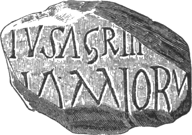 Fragmentary inscription of Agrippa, soldier of first Cohort of Hamians, found before 1840 at Carvoran (Magnis), Hadrians Wall.